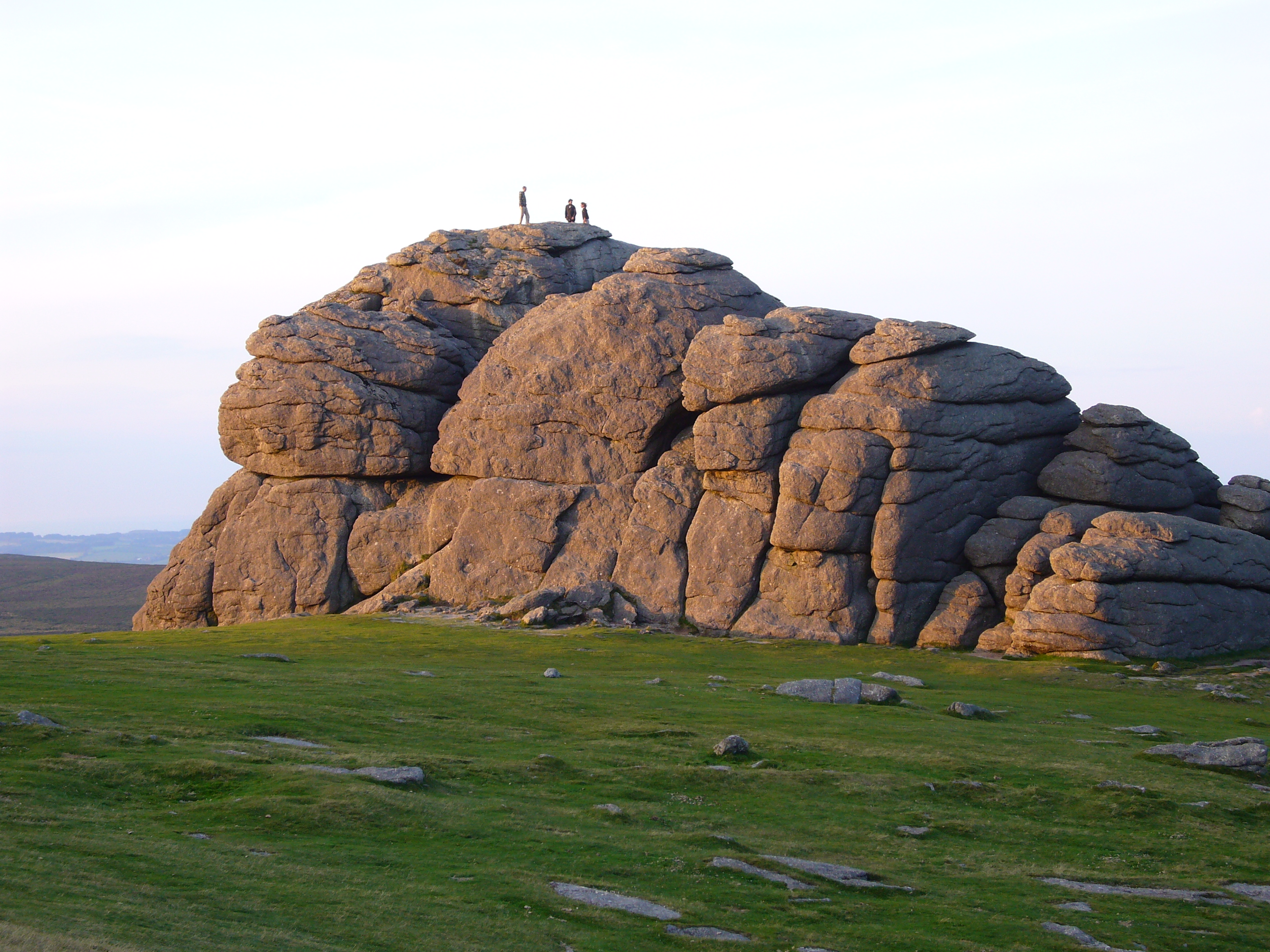 Haytor in evening light (Dartmoor)